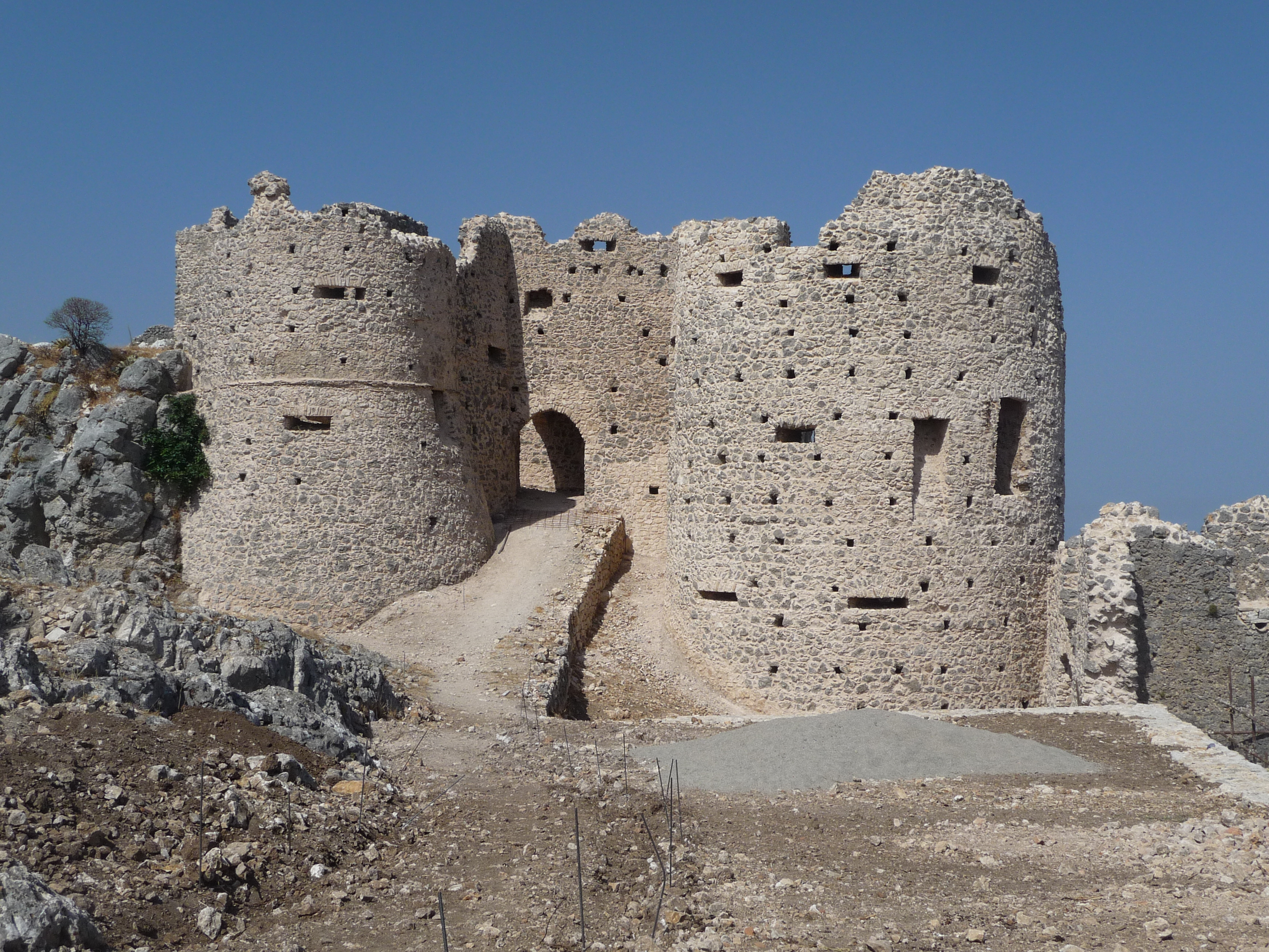 Stilo's Castle(august 2010)